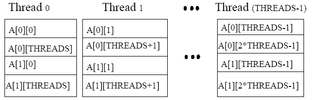 Рис. 3. Результат (sharedintA[4][THREADS])